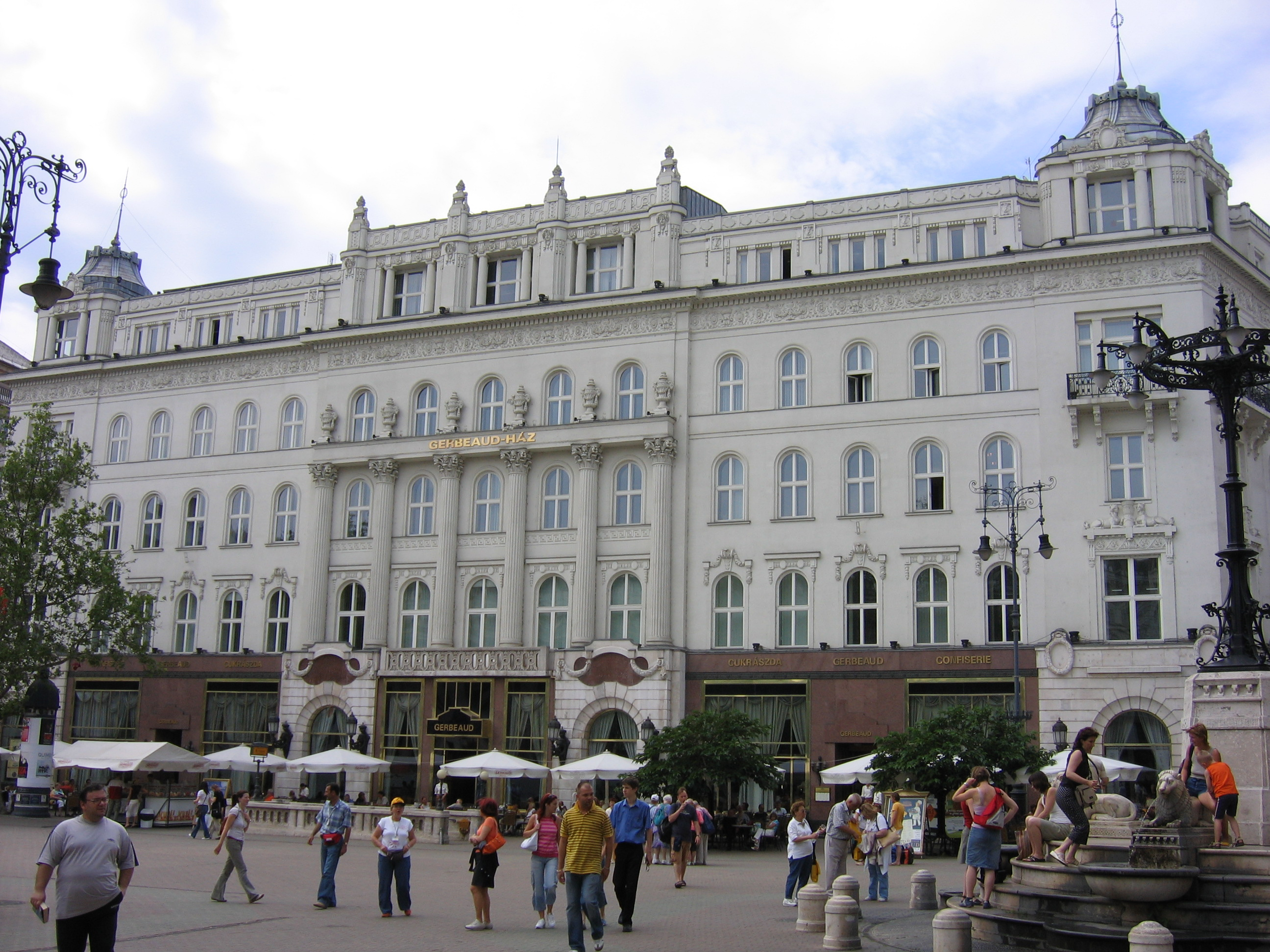 Hotel Gerbeaud, Budapest